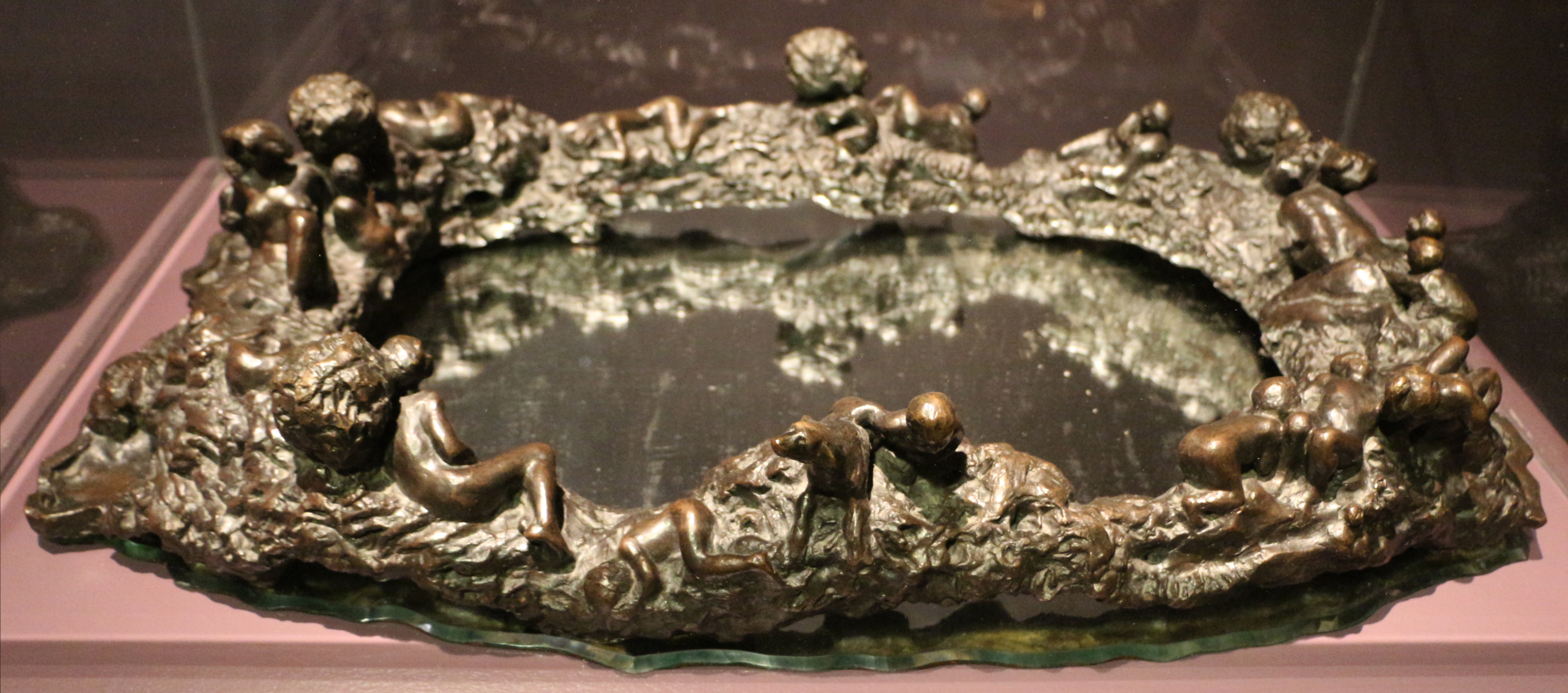 Decorative arts in the Musée d'Orsay